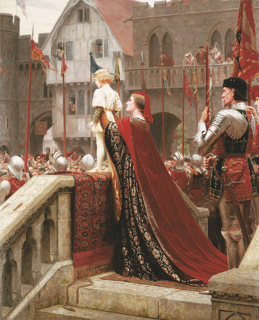 A Little Prince likely in Time to bless a Royal Throne (or Vox Populi)